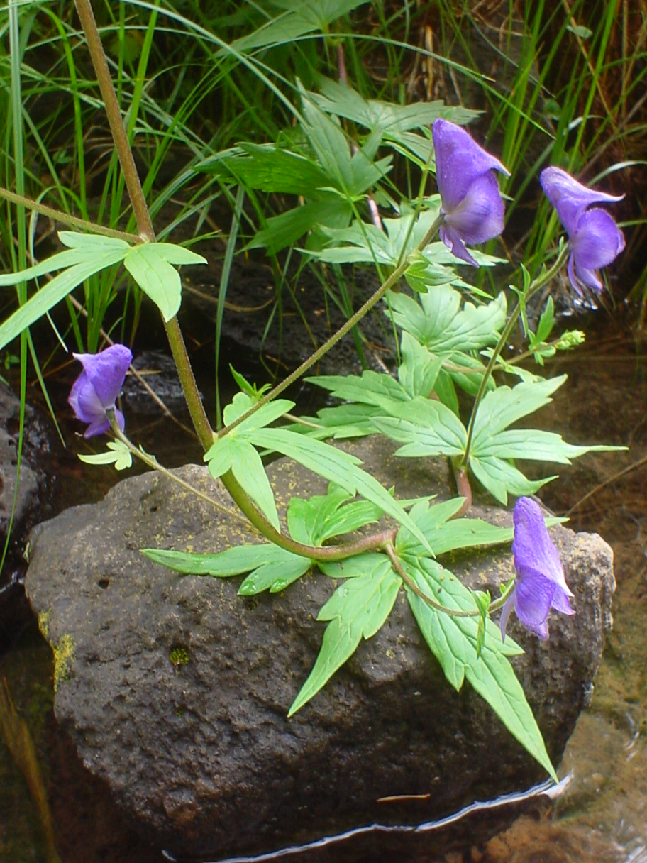 Aconitum columbianum